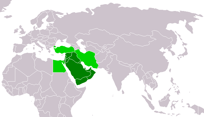 Arabia in dark green, the Middle East in light green